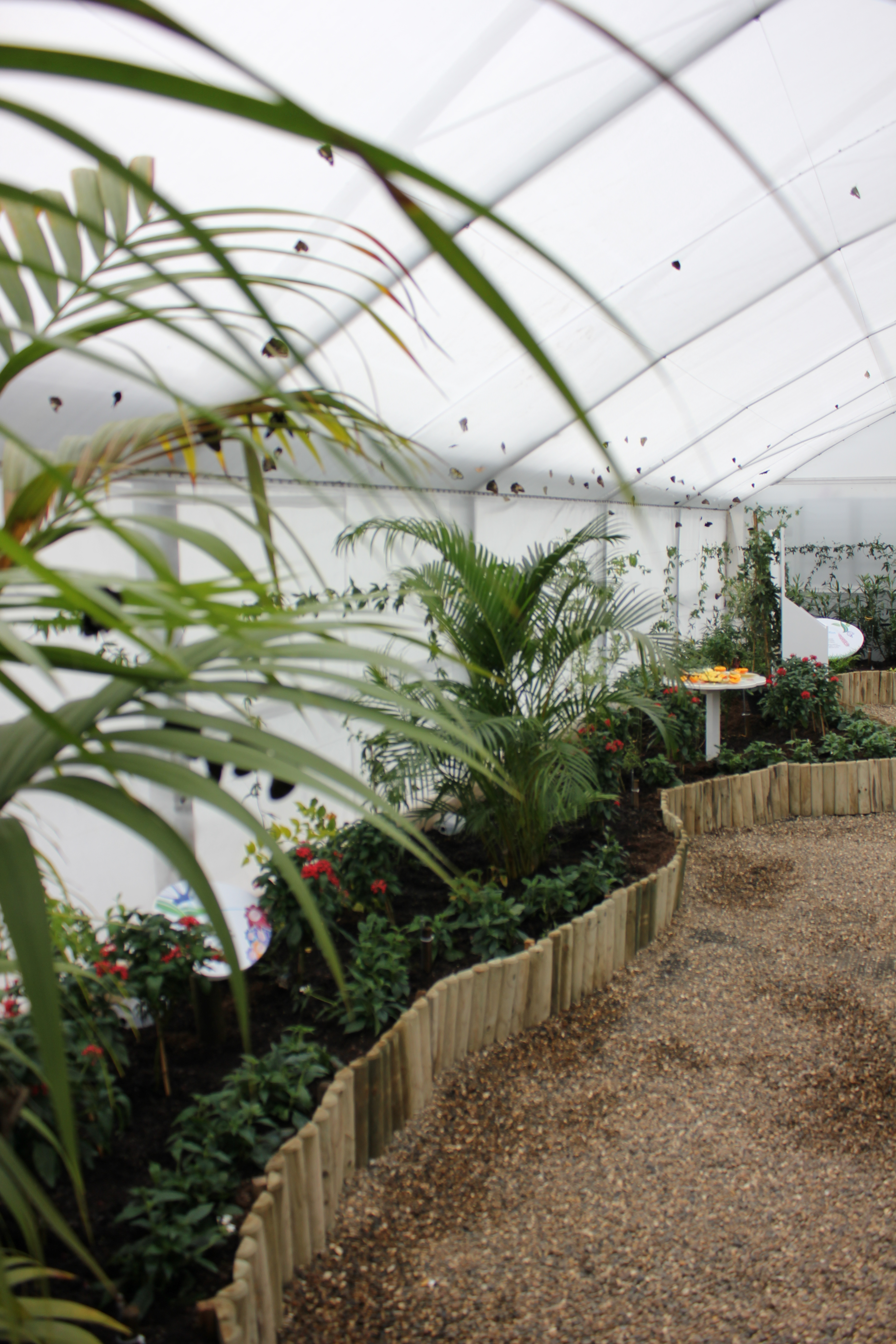 Butterfly House opening event for staff and volunteers, Natural History Museum, London